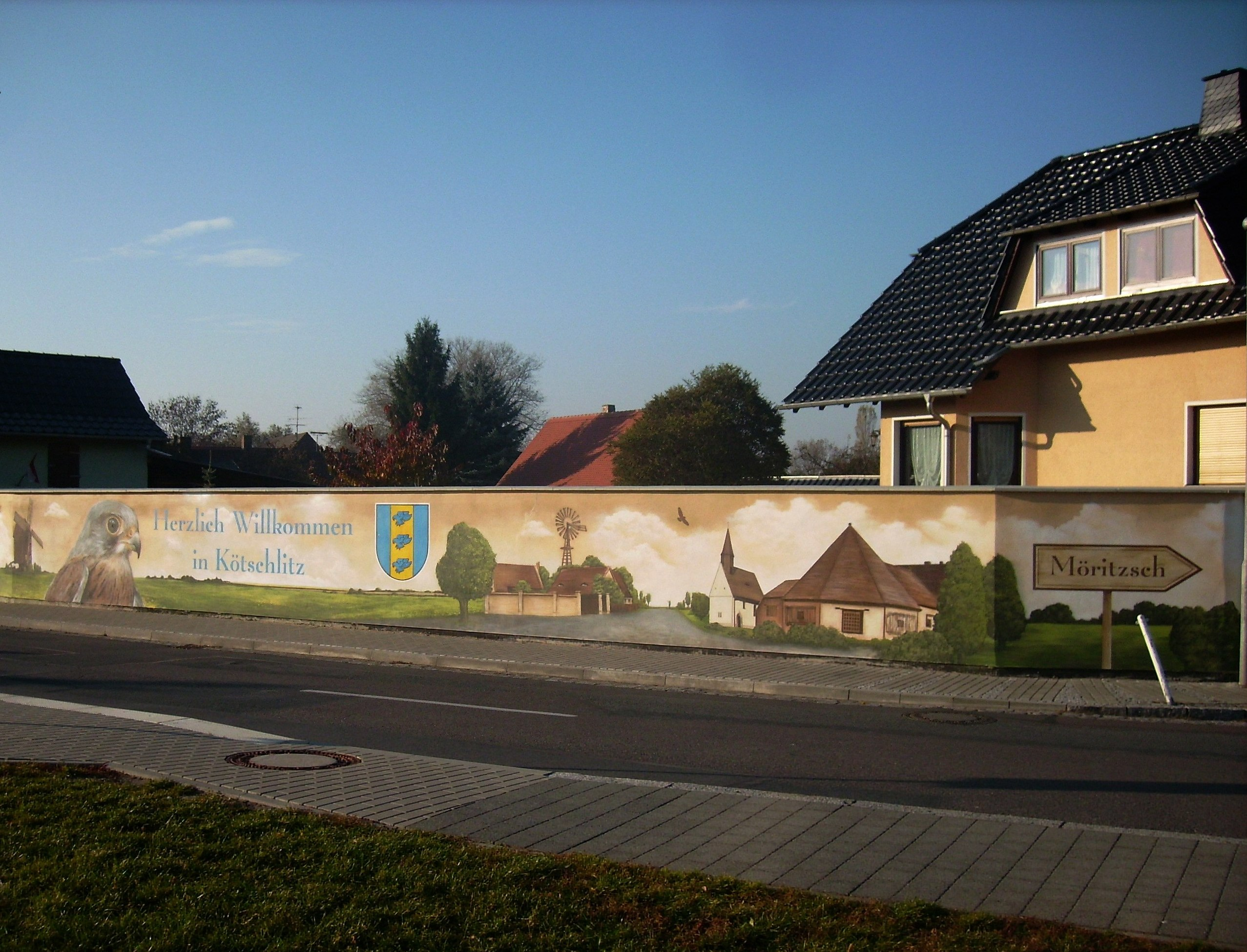 Mural in Kötschlitz (Leuna, district of Saalekreis, Saxony-Anhalt)